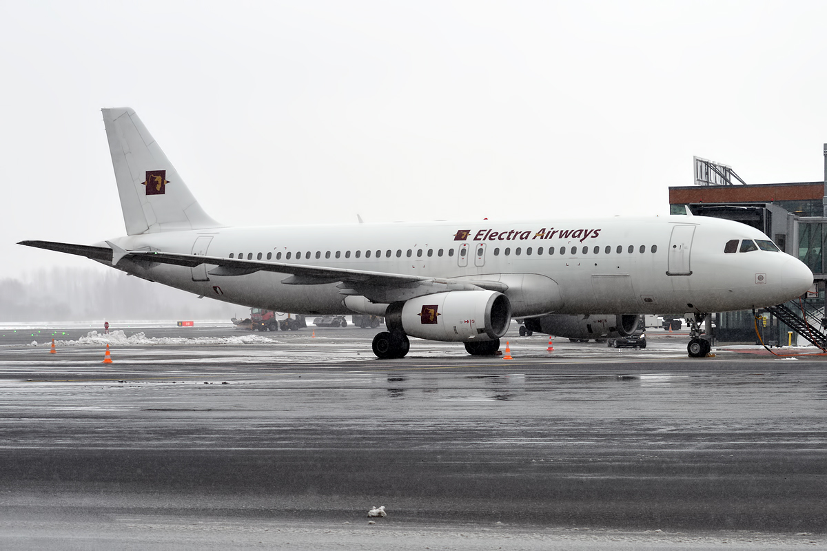 Electra Airways, LZ-EAA, Airbus A320-231